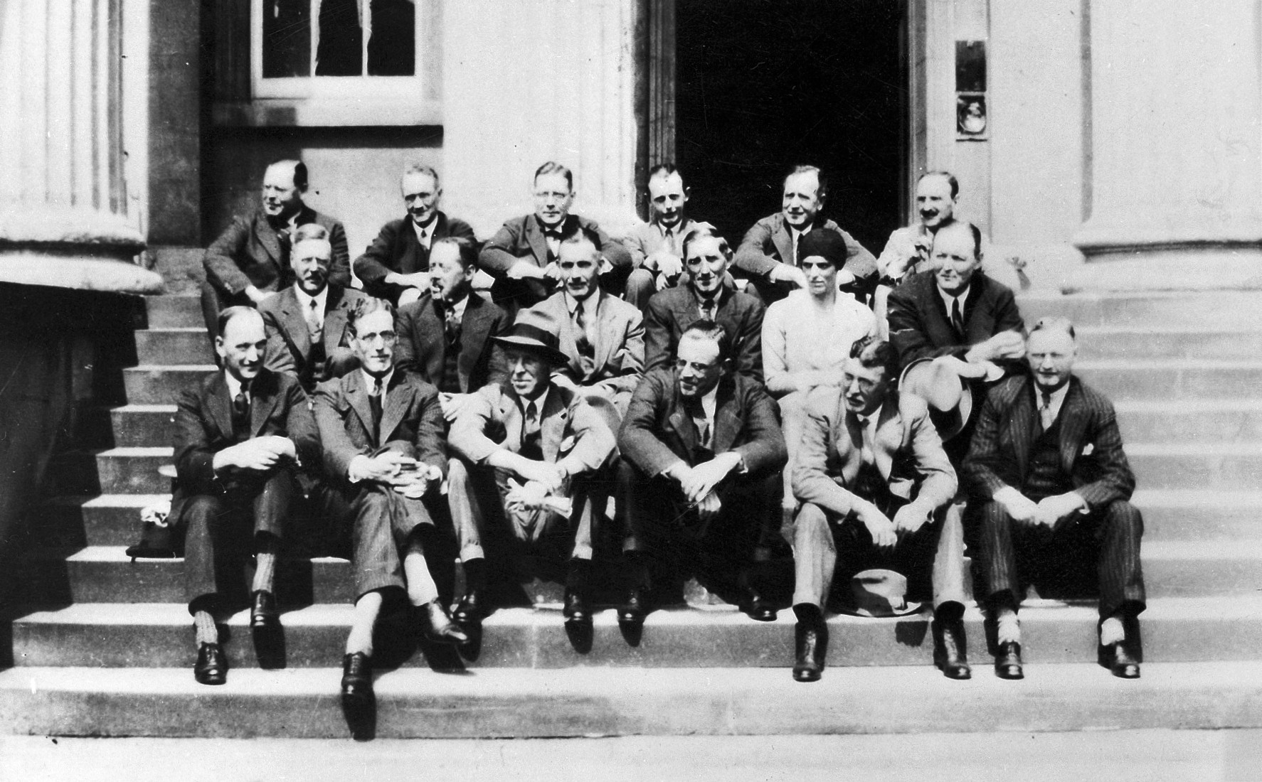 First meeting of the British Pathological Association, later Association of Clinical Pathologists, at Bristol. (left to right, back to front) - Arnold Renshaw, Hadfield, Davey, -, D. Nabarro, G.J. Greenfield, Pooley, -, Myott, N.H. Schuster, Embleton, Solly, Wordley, Dyke, Wright, Sladden. Wellcome Images Keywords: pathology, societies, great britain